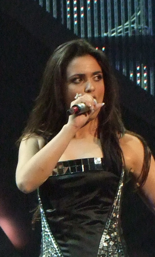 Morena (singer) during Semifinal 2 Eurovision 2008